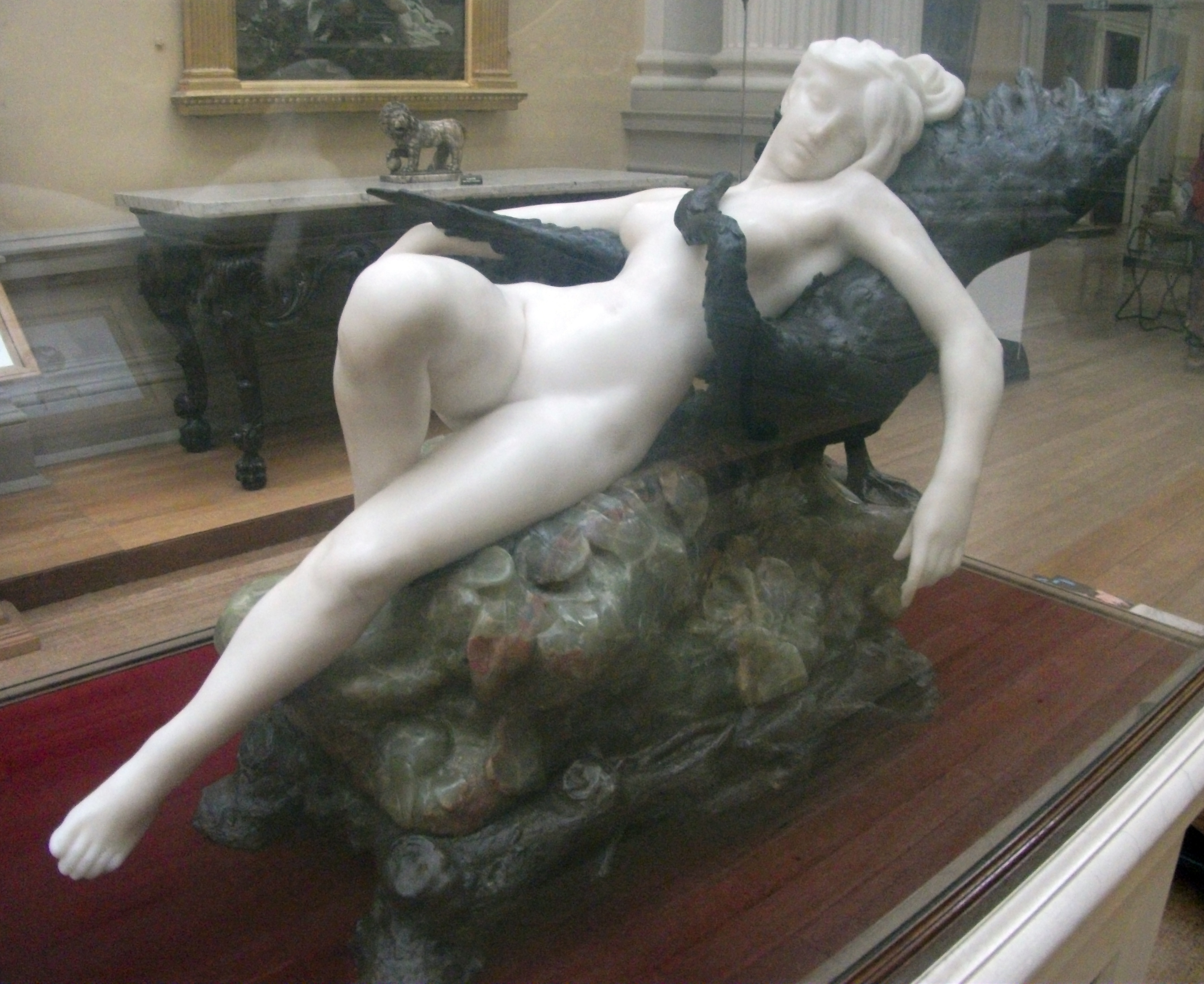 Lady Lever Art Gallery, Port Sunlight, near Liverpool